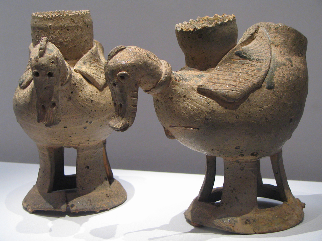 Duck-shaped pottery from Gaya, 5th or 6th century. Stoneware.